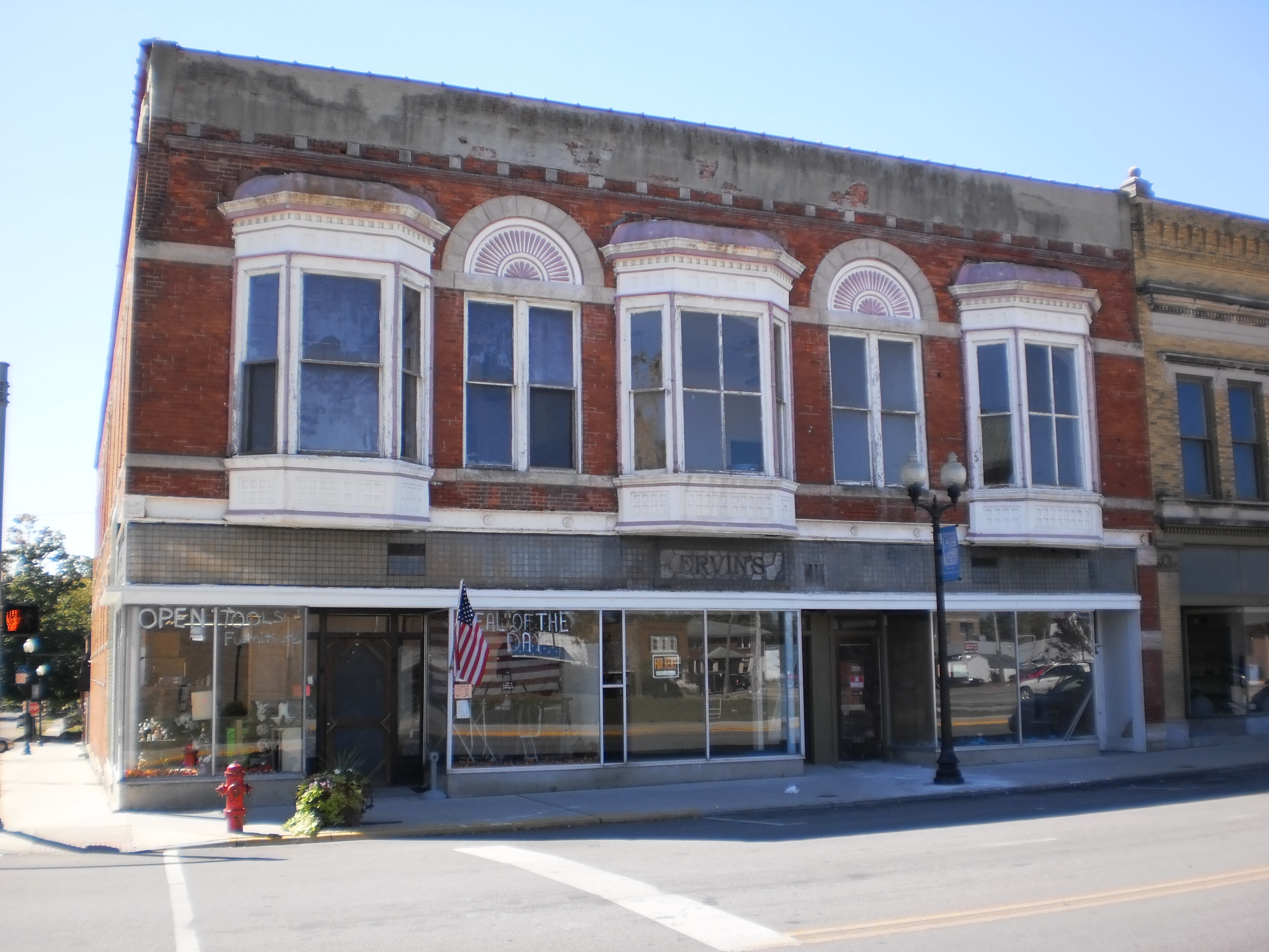 This building is part of the Hartford City Courthouse Square Historic District in Hartford City, Indiana, USA. It was built around 1900.